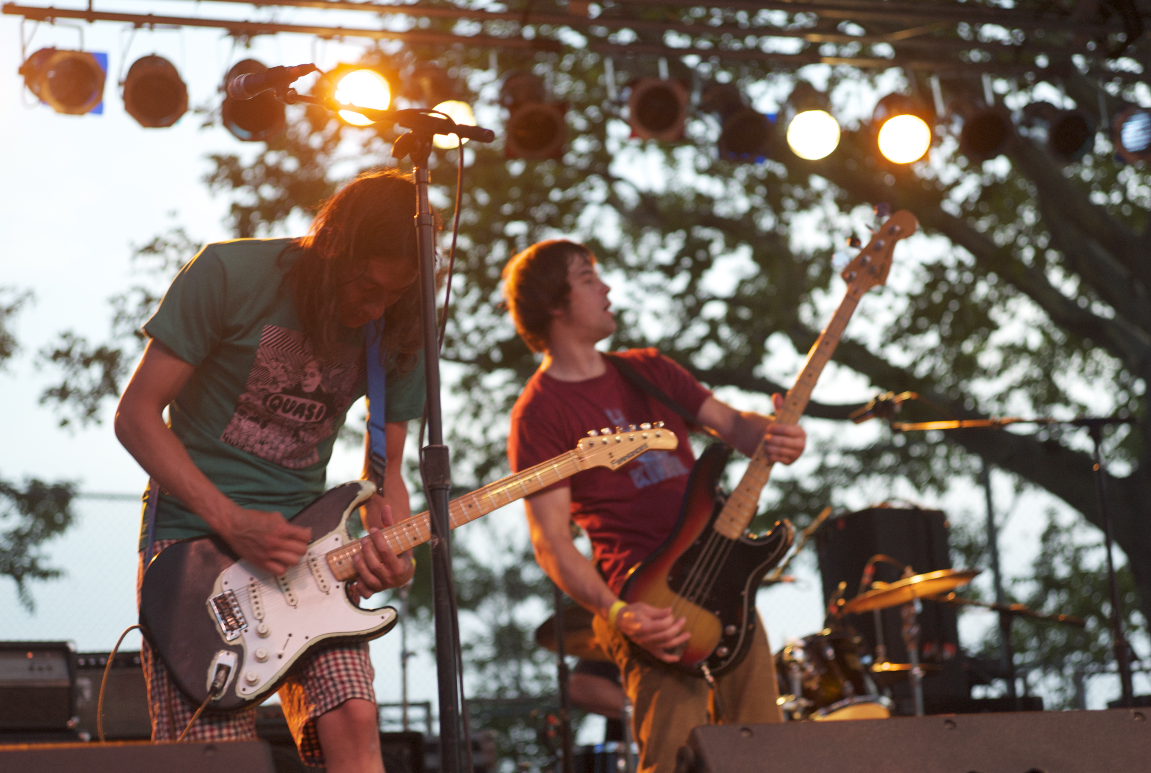 Polvo playing in Greenpoint, New York on June 27, 2010.